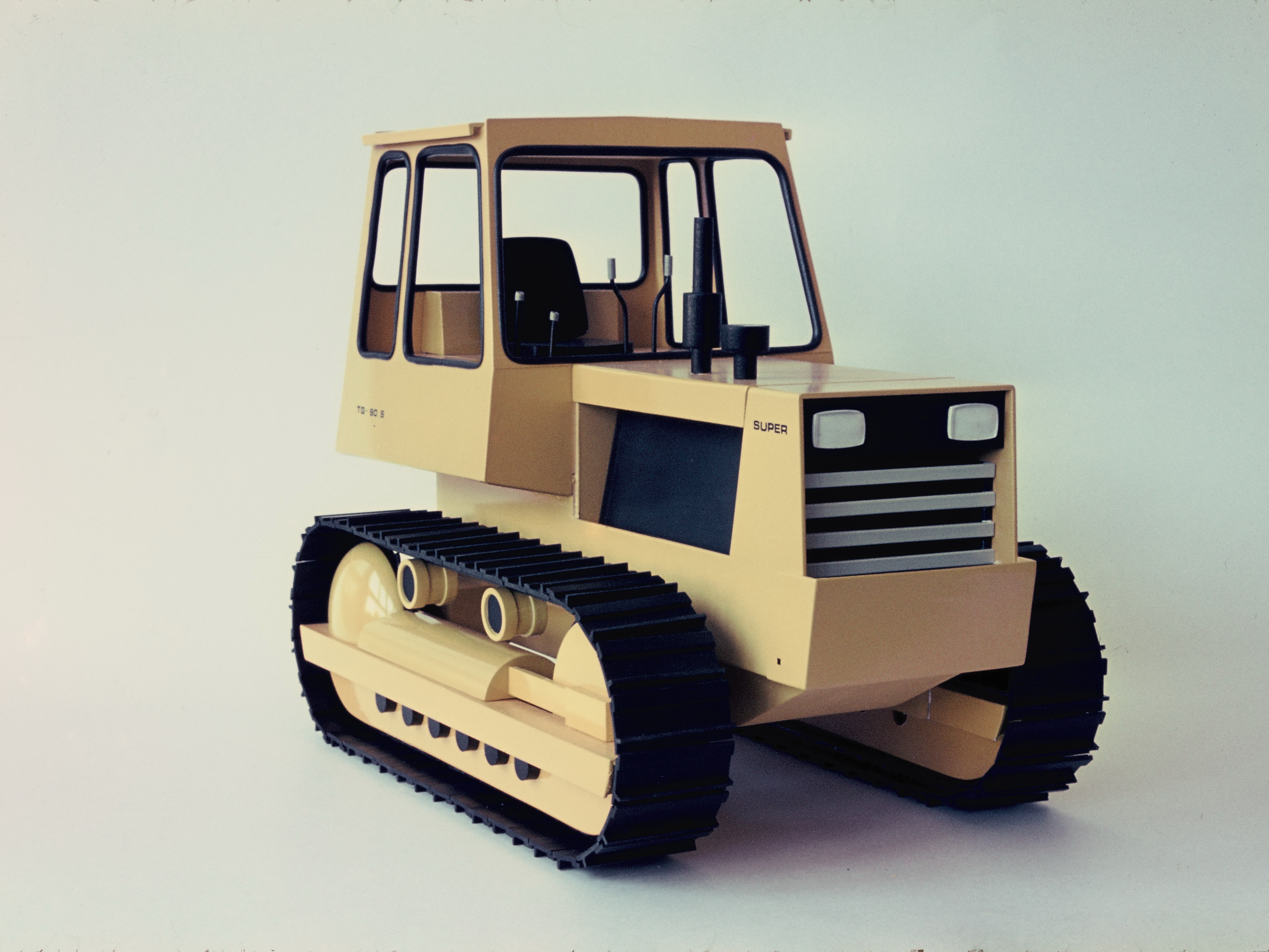 Variant of model of crawler-bulldozer TG-90 redesigned by Gojko Varda, 14. OCTOBAR from Kruševac, 1966